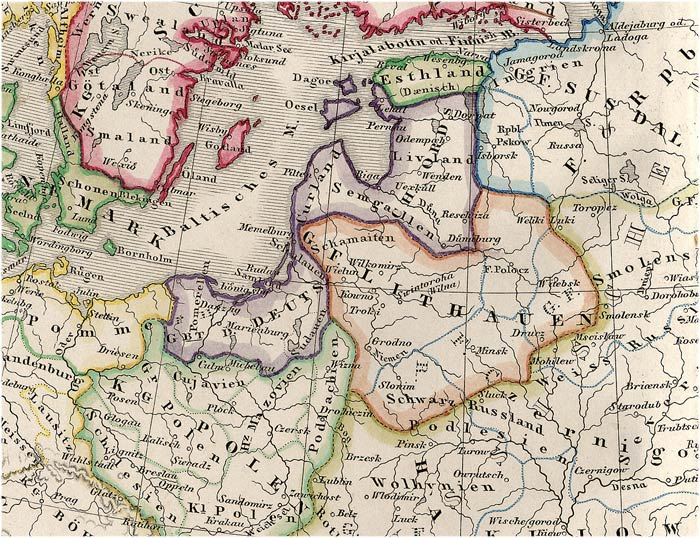 Map shows Central Europe in the early 14th century. Poland is shown after the loss of Pomerelia (Teutonic takeover of Gdańsk) and Lubusz Land, but before the loss of Silesia.